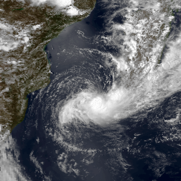 Cyclone Gretelle on January 26, 1997